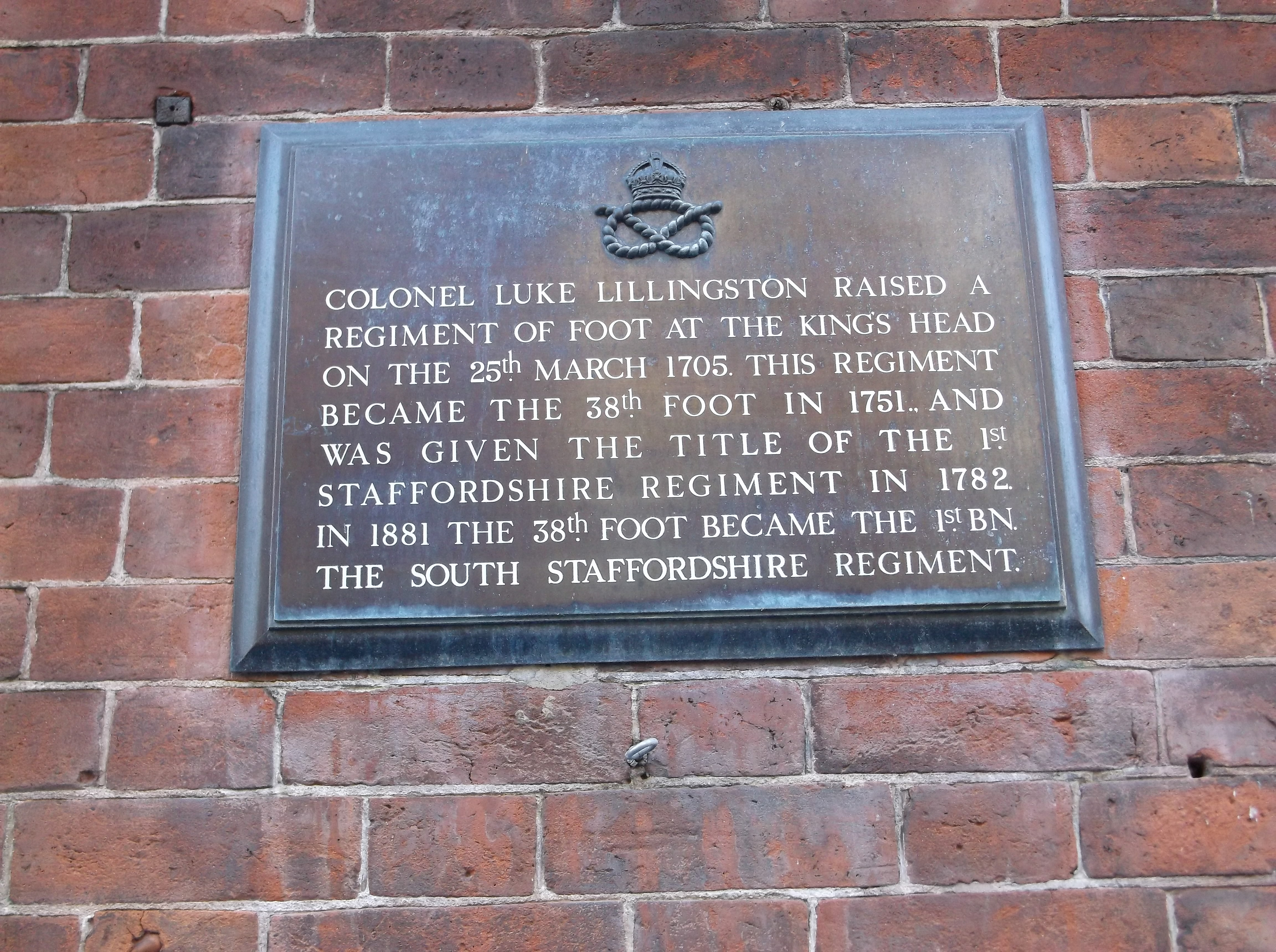 The King's Head public house, Lichfield. The plaque record the founding of the 38th Regiment of Foot at the pub in 1705, which went on to become 1st Battalion, the South Staffordshire Regiment.